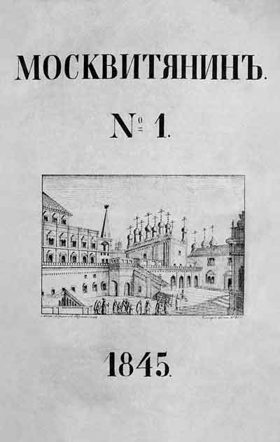 The cover of “Moskvityanin” magazine №1, 1845